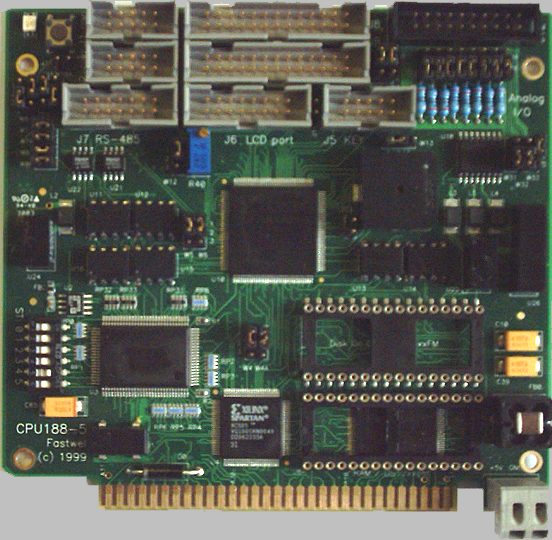 Photo of the motherboard an embedded computer standard or form factors MicroPC (Motherboard CPU188-5, production Fastwel, Russia)